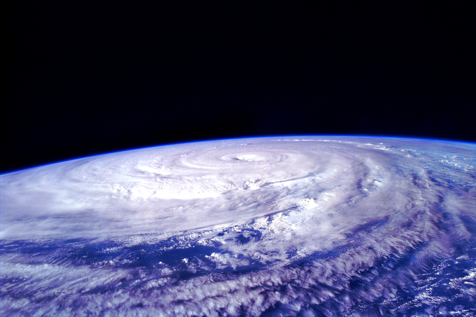 Super Typhoon Winnie raged through parts of the Eastern Hemisphere last week. Swirling in the Pacific Ocean with winds in excess of 160 miler per hour, Winnie became one of the stronger storm systems in modern times: a Category 5 Hurricane. The above picture, taken August 13th by crew member of Space Shuttle Discovery, showed the extent of this huge storm: the central eye measured fully 8 miles in diameter. Last week, Winnie hit the Northern Mariana Islands at full strength, but then weakened before heading toward China. Studying large storms systems on other planets give insight into the workings of Earth bound storms like Winnie.